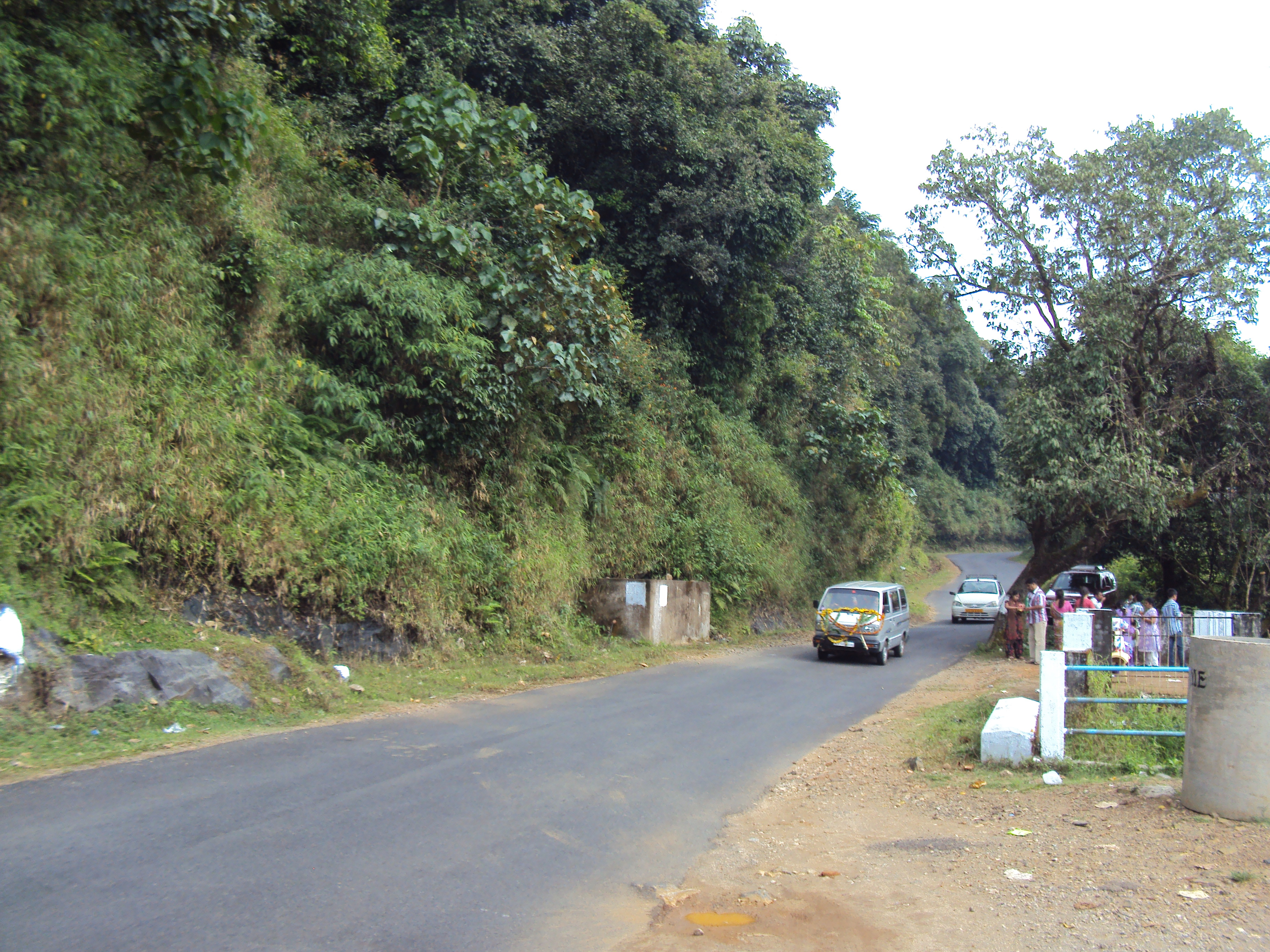 Virajpet - Talakaveri road views